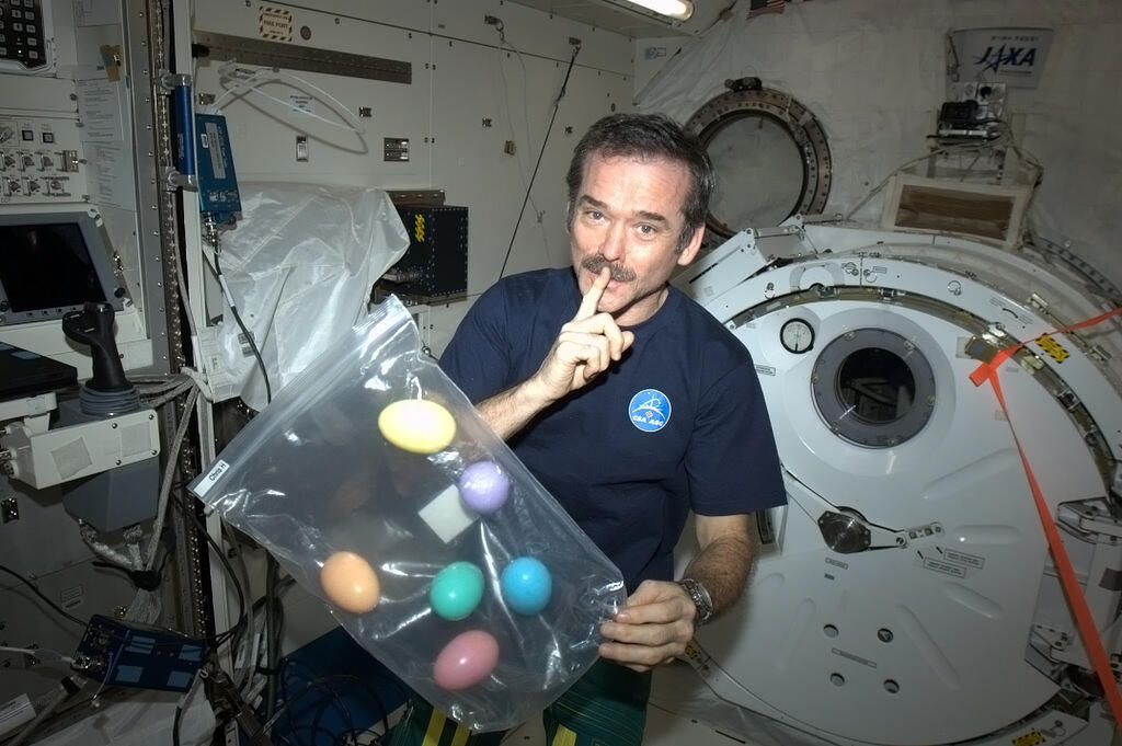 Chris Hadfield caption: "Don't tell my crew, but I brought them Easter Eggs :)" Astronaut Chris Hadfield with Easter eggs on board the International Space Station in March 2013.